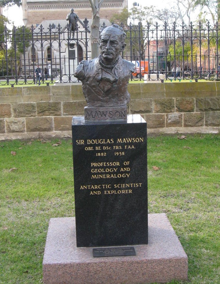 Bust of Sir Douglas Mawson & the Conservatorium of Music, University of Adelaide, North Terrace, Winter 2008.